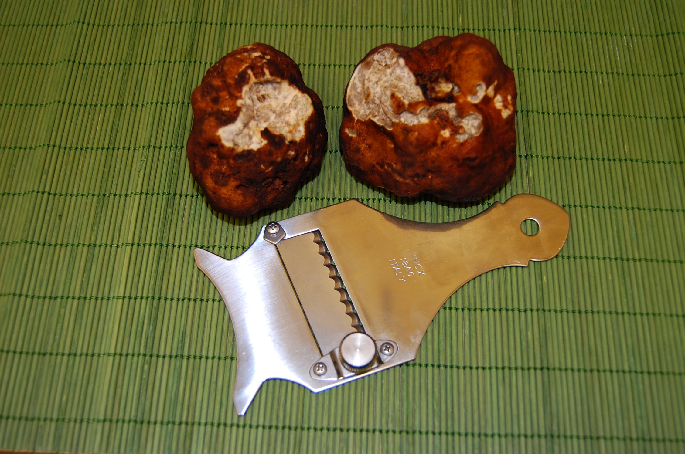 Fruit bodies of the truffle Kalapuya brunnea M.Trappe, Trappe, & Bonito, commonly known as the "Oregon brown truffle". Collected from Cedar Creek, near Foster, Oregon, USA. "Notes: These huge baseball sized Oregon brown truffles smelled like a combination of cauliflower and garlic cheese".